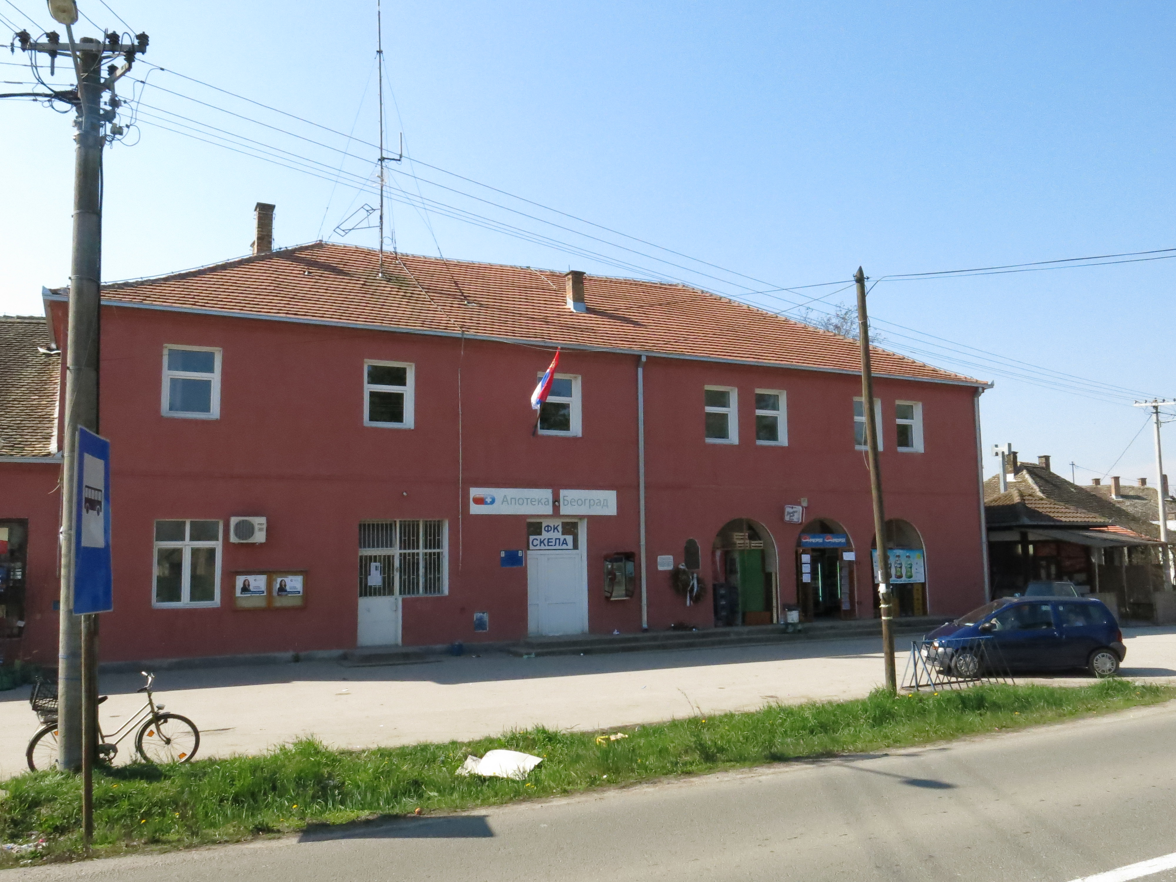 Skela, Pharmacy